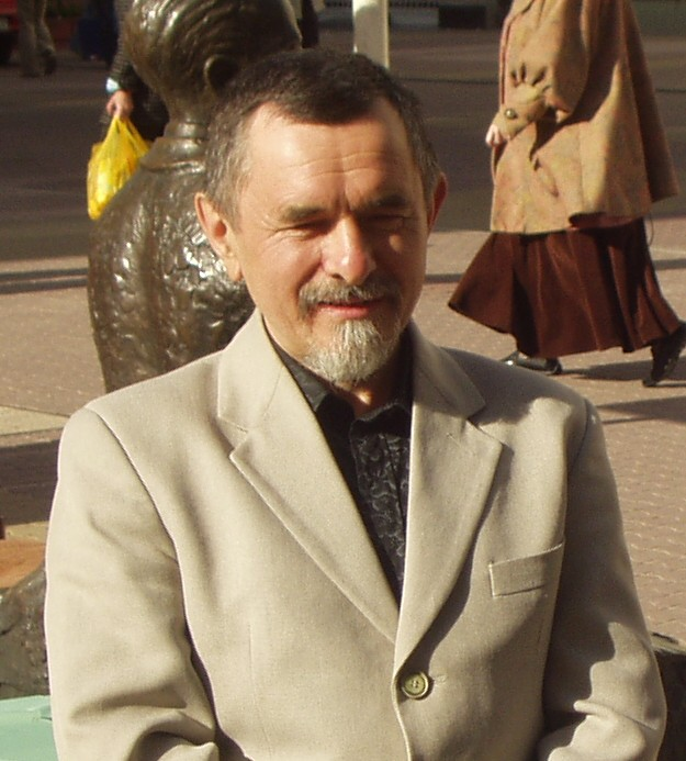 Jozef Baran, polish poet